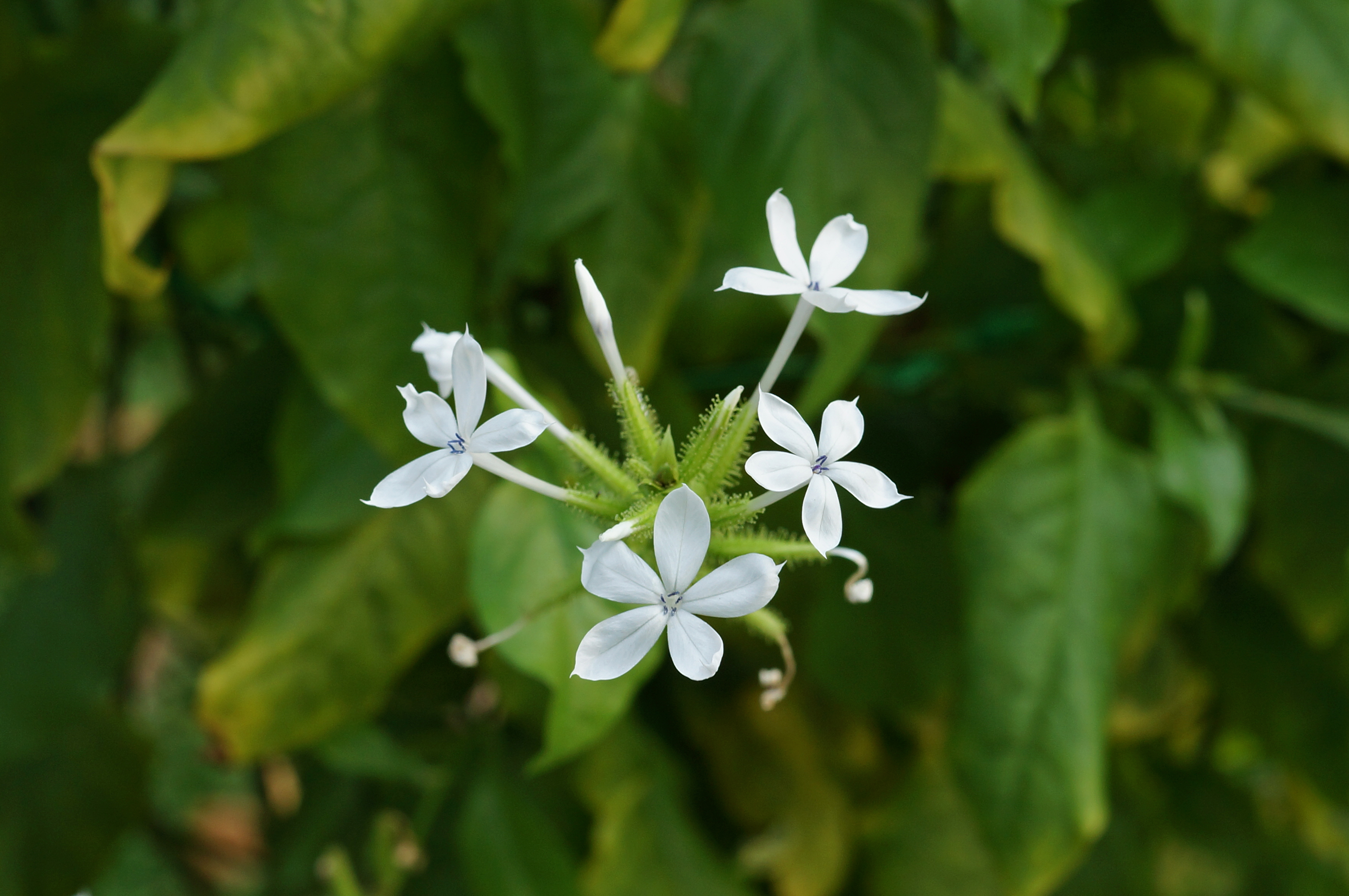 Ceylon leadwort, doctorbush